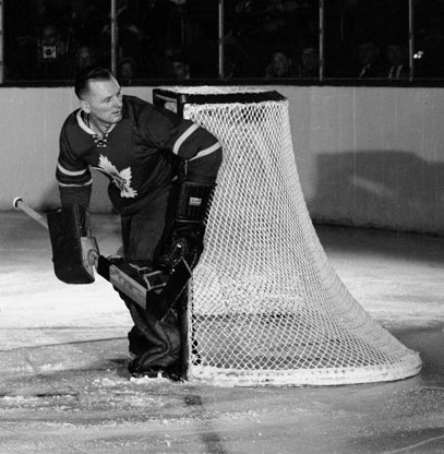 John William Bower (born John Kiszkan on November 8, 1924 in Prince Albert, Saskatchewan), nicknamed "The China Wall", a Hockey Hall of Fame goalie.